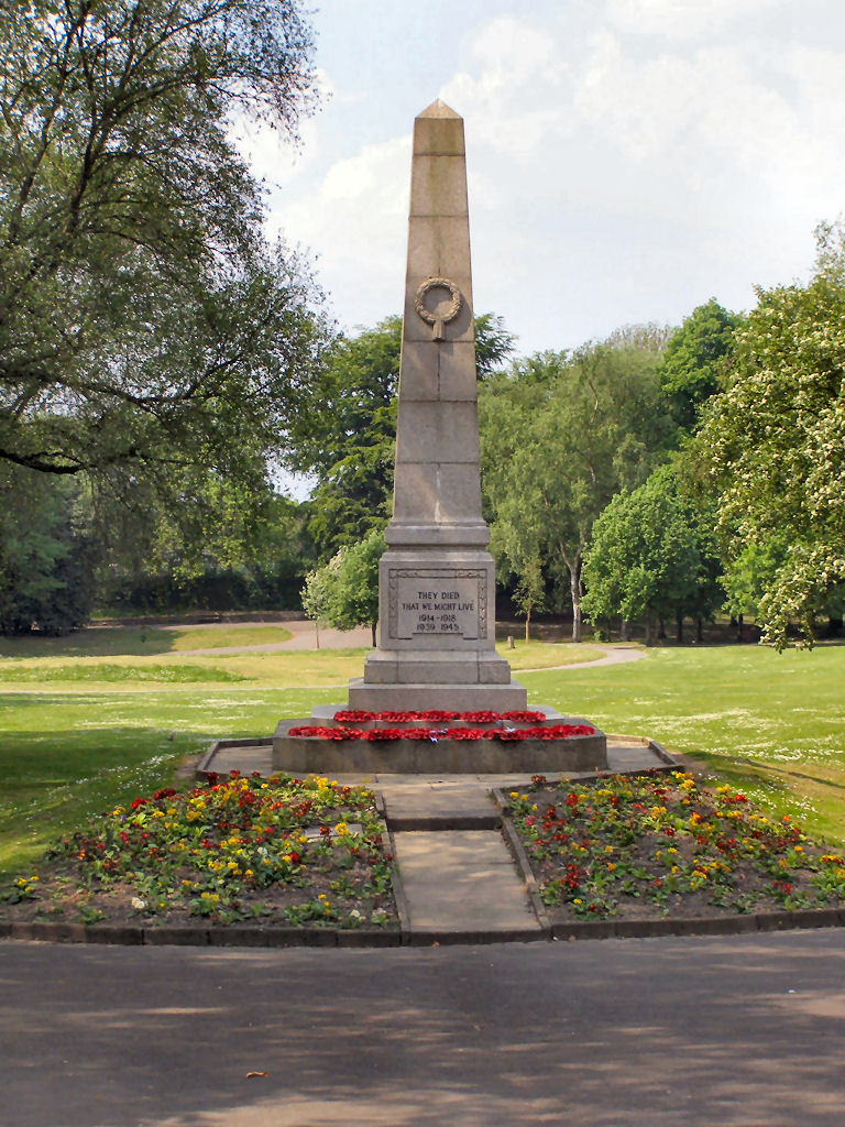 Walkden War Memorial, near to Walkden, Salford, Great Britain. The War memorial in Parr Fold Park.